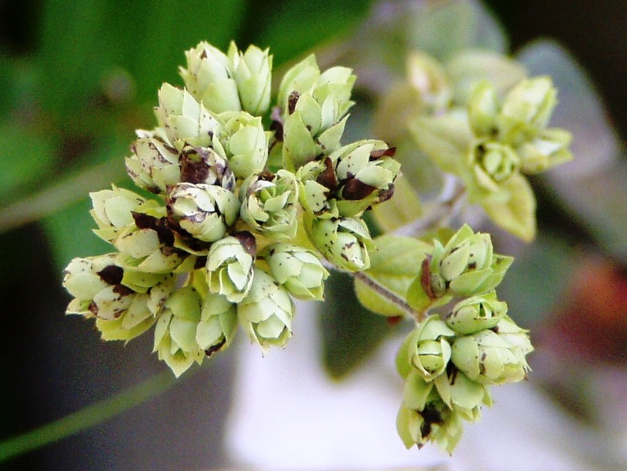 Oregano in the wild. Dried flowers, ready for human consumption.